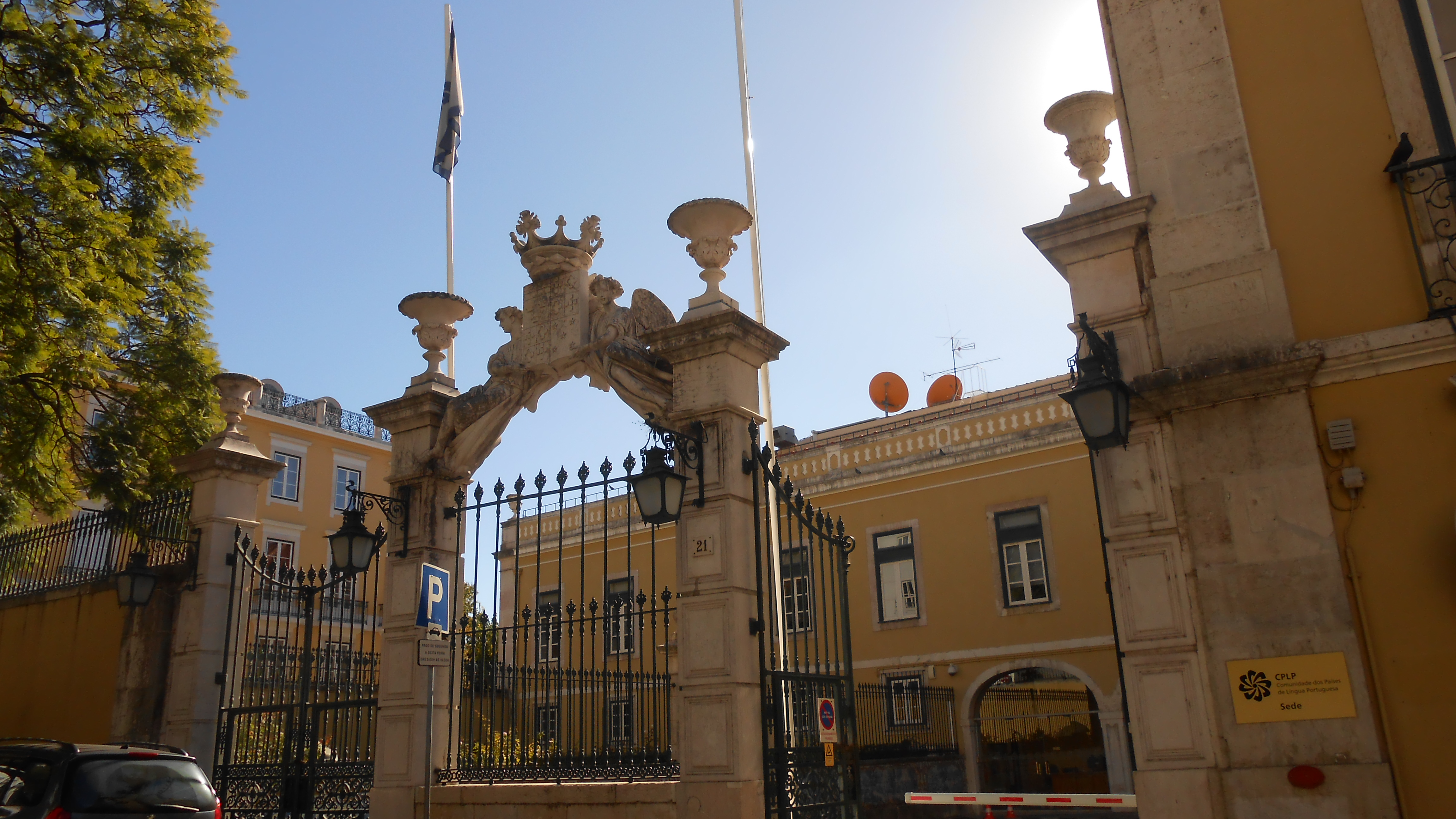 The Palácio Conde Penafiel in Lisbon, built in the early 17th century, became the headquarter of the Community of Portuguese Language Countries (Comunidade dos Países de Língua Portuguesa, CPLP) in 2011.